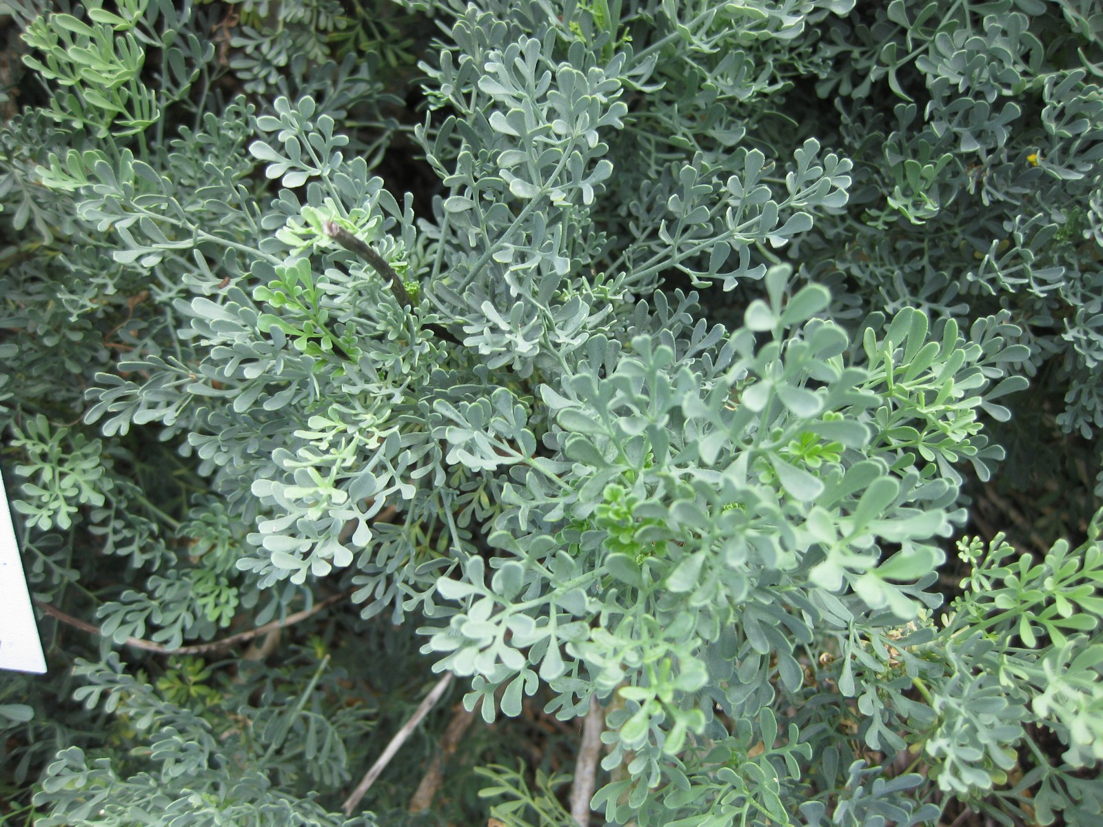 Photographed at the Royal Botanic Gardens Sydney (Australia) in January